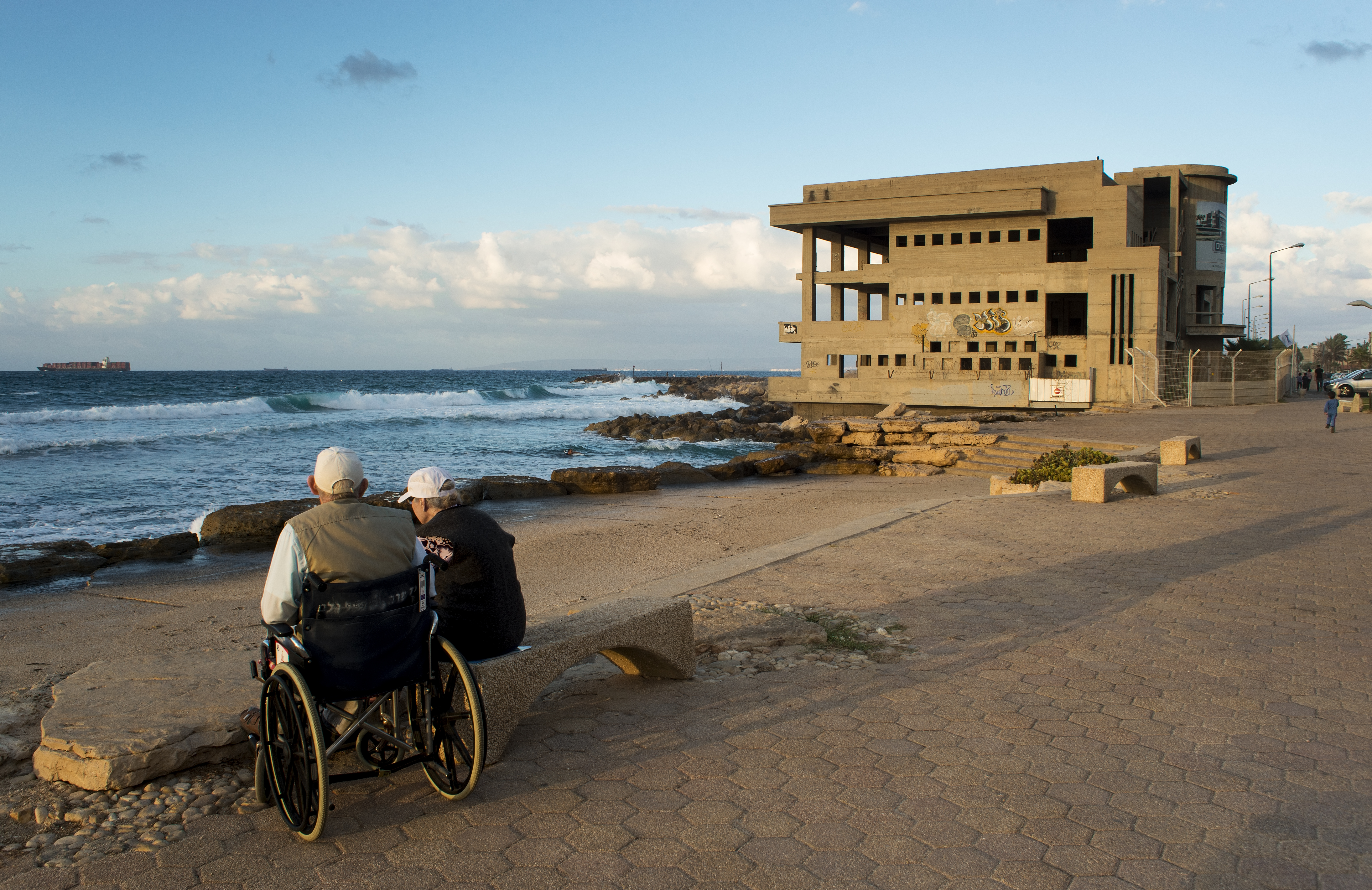 Bat Galim Casino in Haifa, Israel. A building on the site served as a communal gathering place in the 1930s, but it was destroyed and the current concrete structure was built there but not finished. The building never served as a casino.